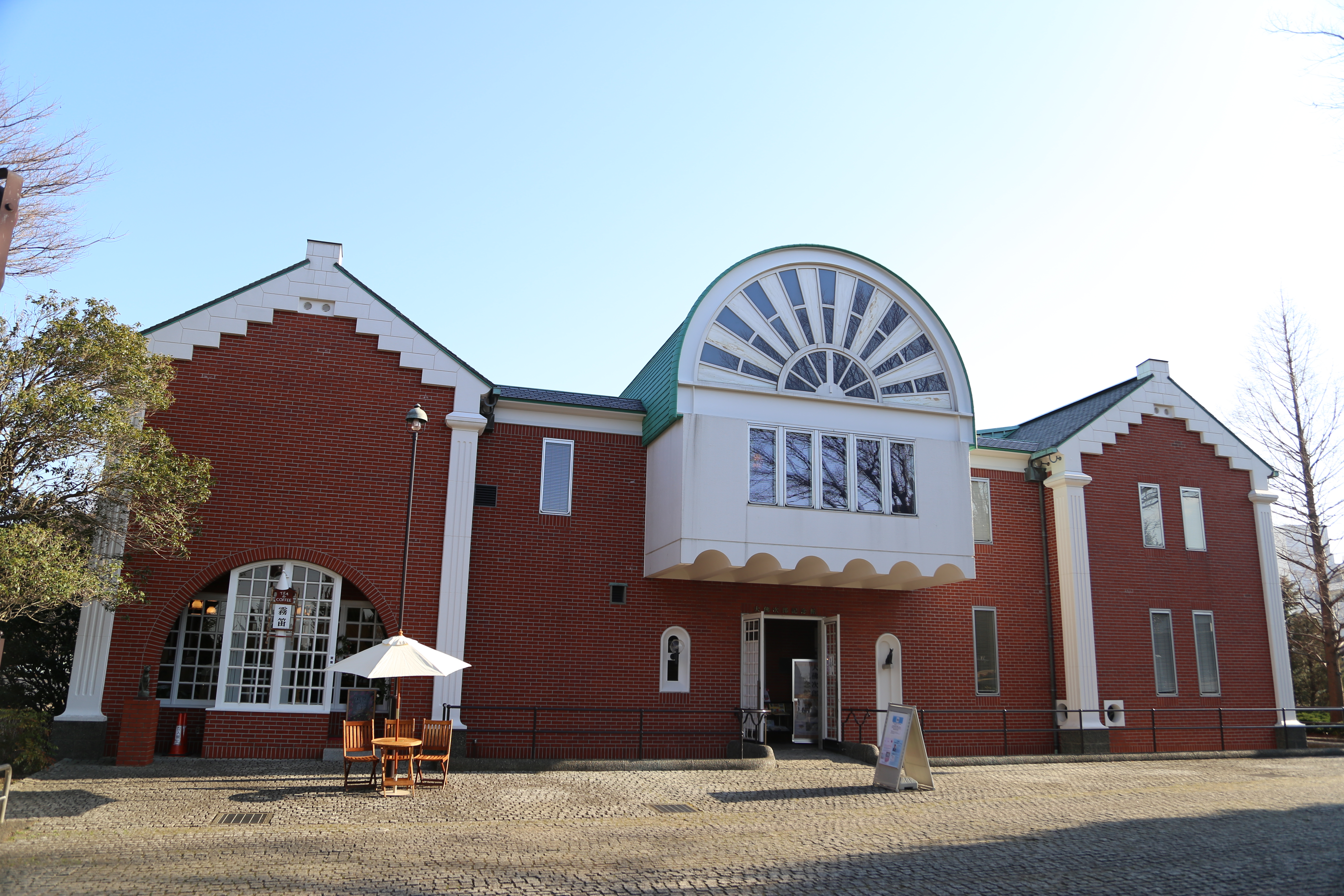 The Osaragi Jiro Memorial Musieum